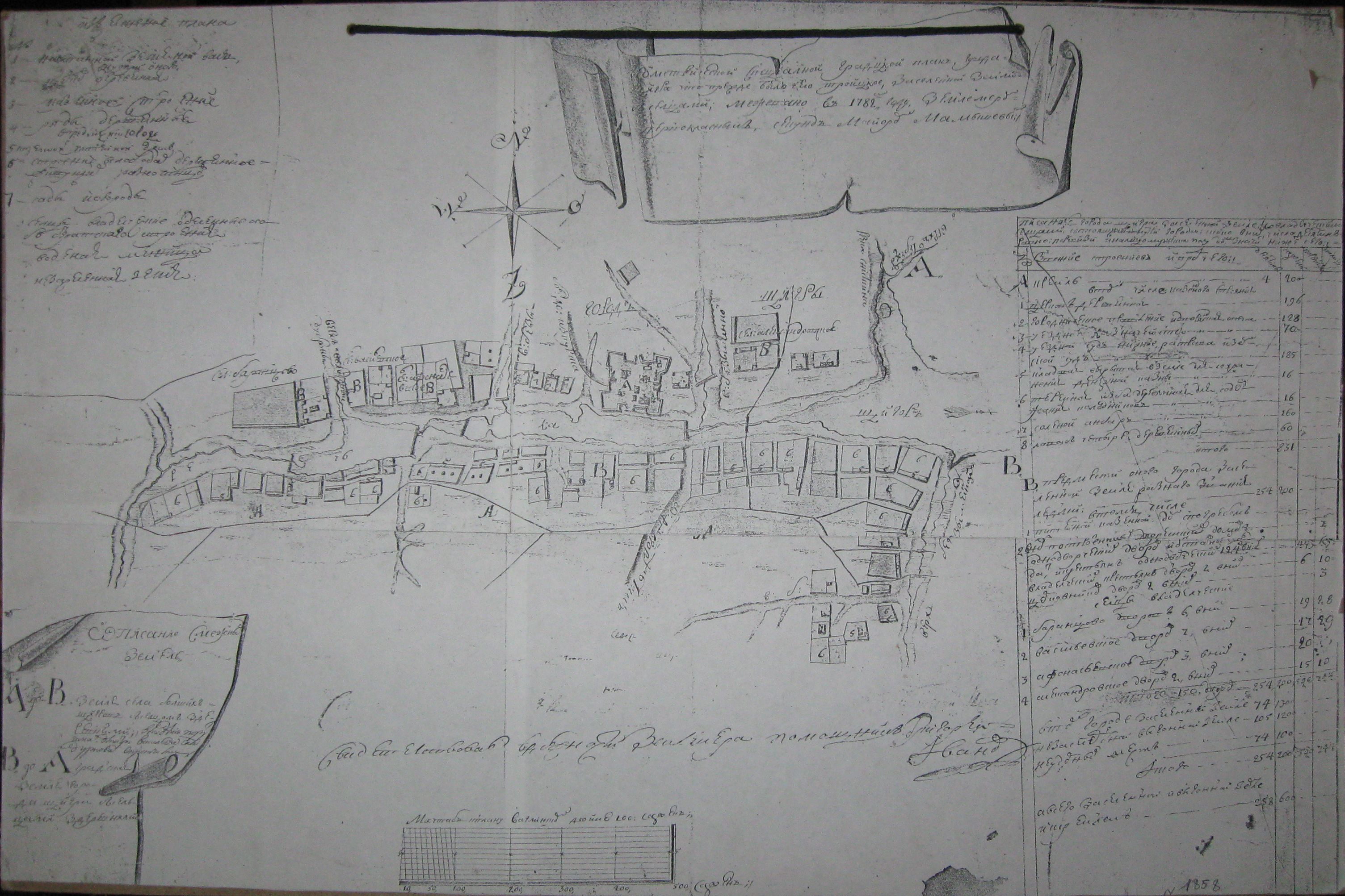 Shchigry map. Year 1782.